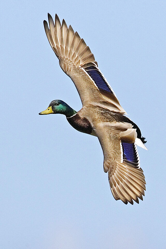 Mallard (Male), Reifel Migratory Bird Sanctuary, Ladner, British Columbia